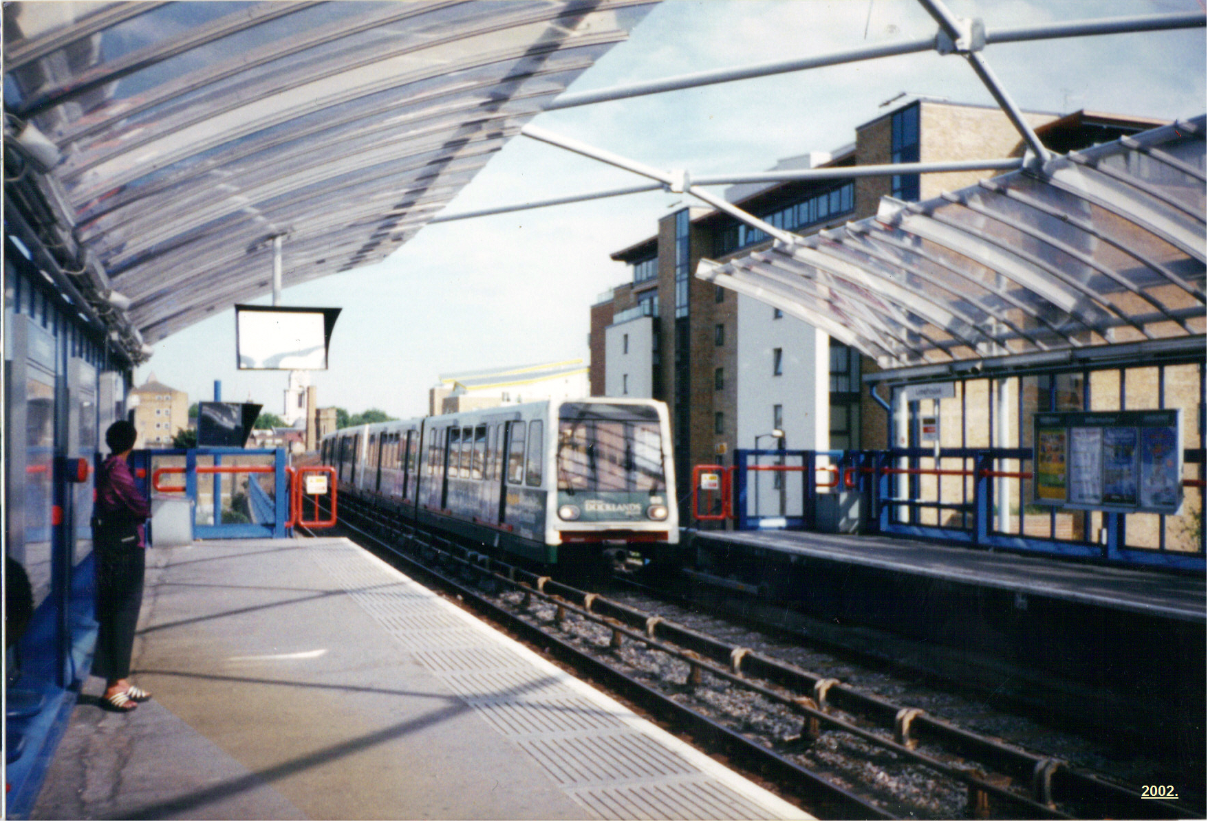 A shot of Limehouse D.L.R. station I took my self in 2002 and relese in to the public domain.